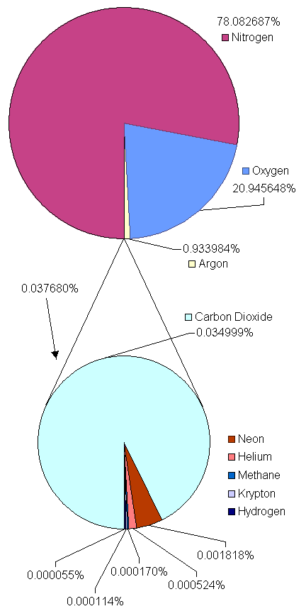 Created by User:Brockert on December 1 en:2004 using information from NASA, and is released into the public domain. It depicts the composition of the Earth's atmosphere; the lower pie represents the least common gasses that compose 0.037680% of the atmosphere. (minor correction by user:skatebiker on 2006 Mar 25 to aid color visibility)